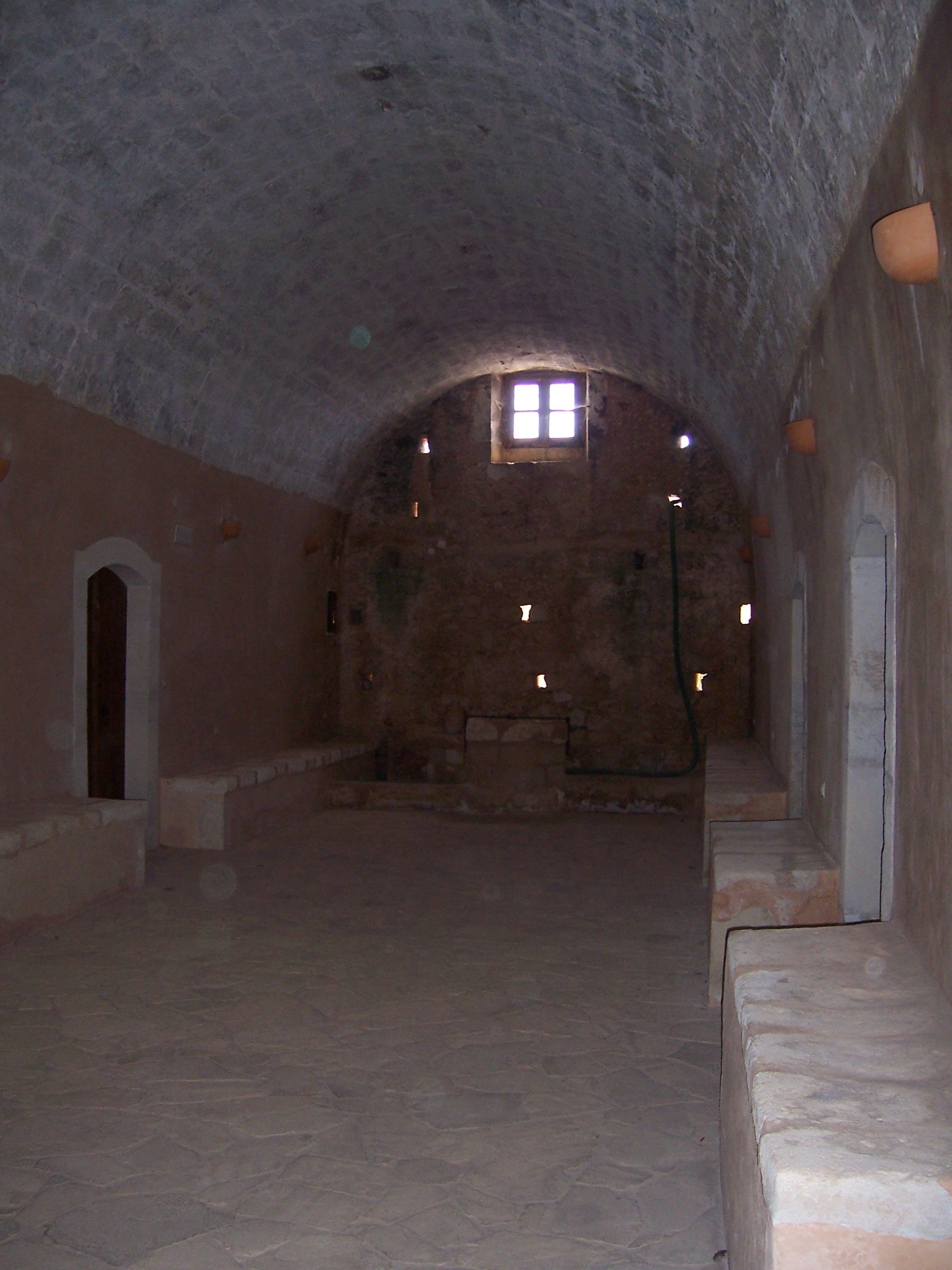 refectory of the monastery of Arkadi (Crete, Greece)